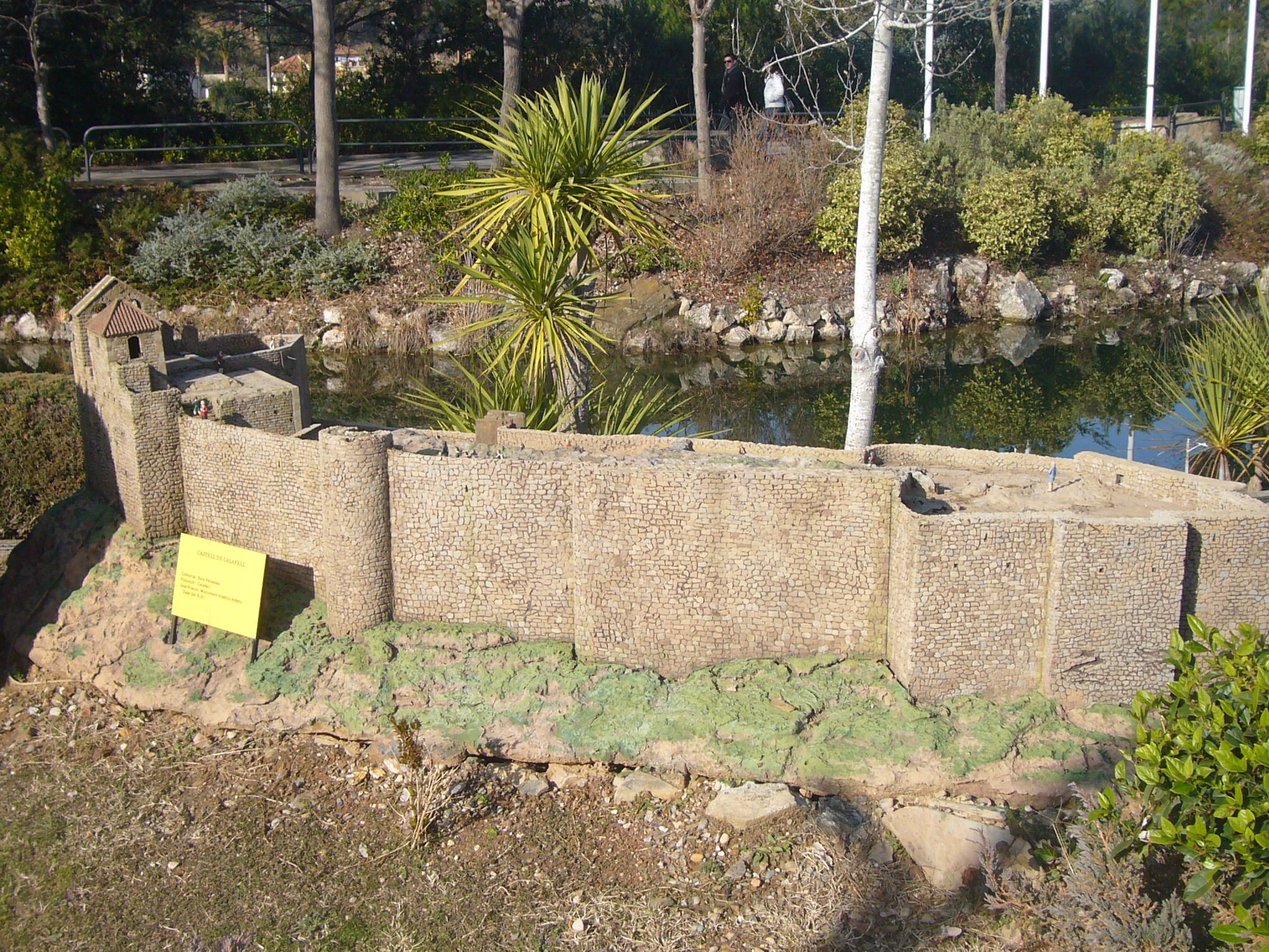 Scale model at the "Catalunya en Miniatura" miniature park: Calafell castle